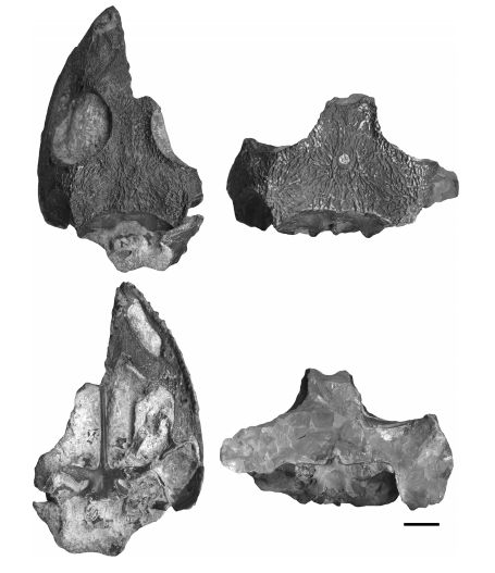 Side-by-side photos of the holotype OMNH 73216 (left) and referred specimen BMRP 2007.3.5 (right) of Cacops woehri in dorsal (top) and palatal (bottom) view.